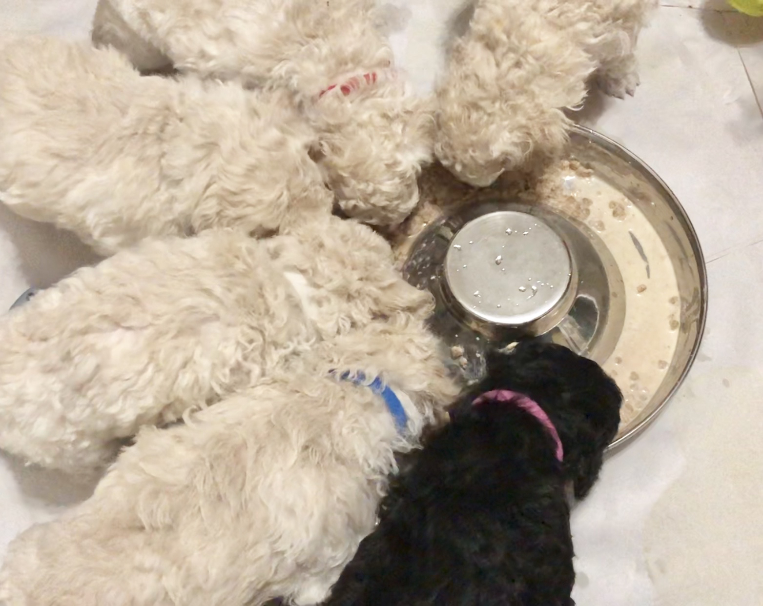 puppies eating